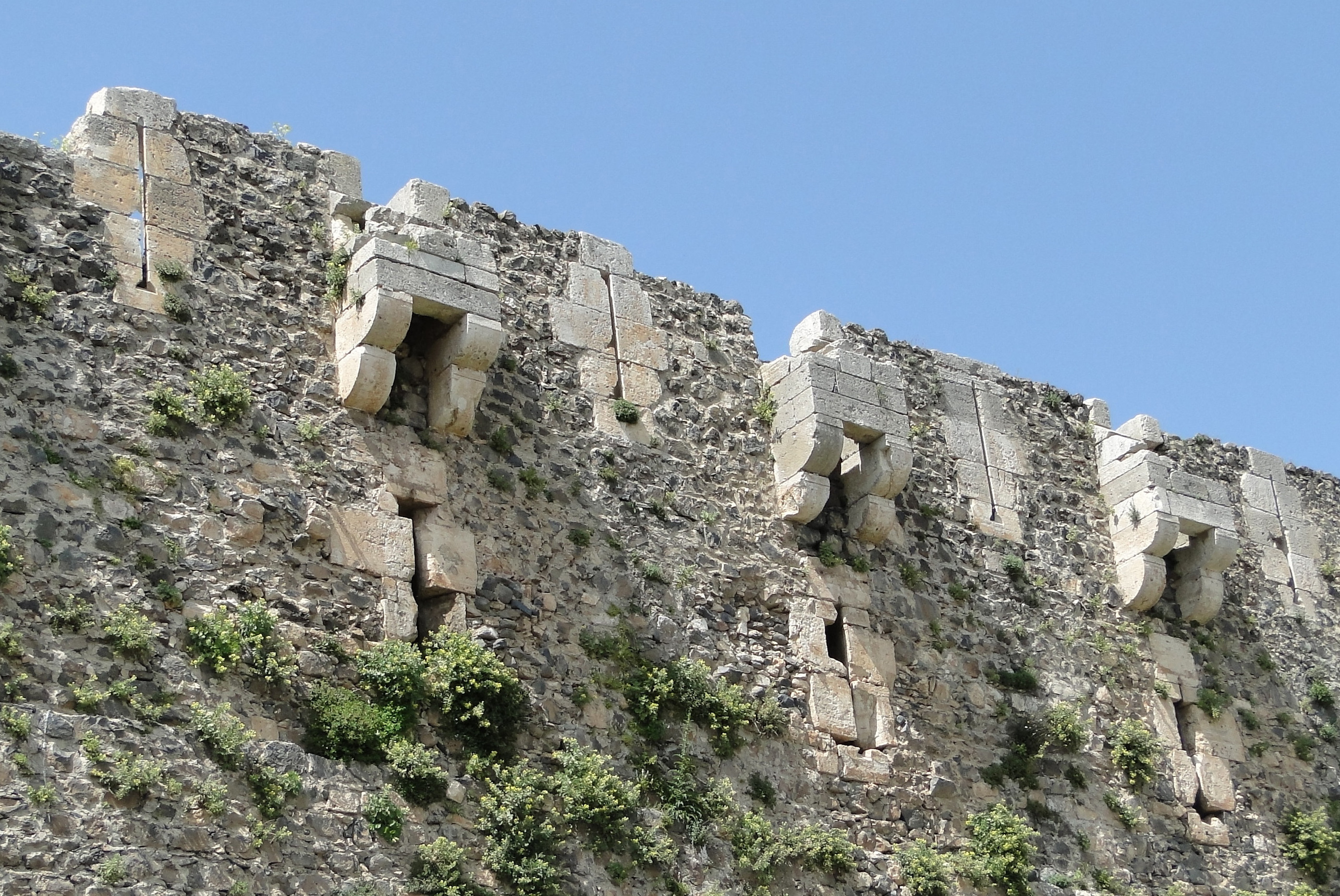 Machicolation on the East outer wall of the Krak des Chevaliers, Syria